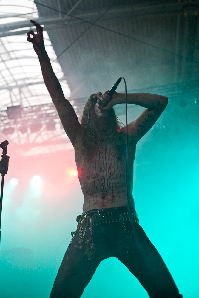 Singer Nikolay Fridtjof Dahr of the norwegian Black-Metal-Band Ragnarok performing live at the Ragnarök Festival 2010 in the Ostbayernhalle in Rieden/Kreuth.